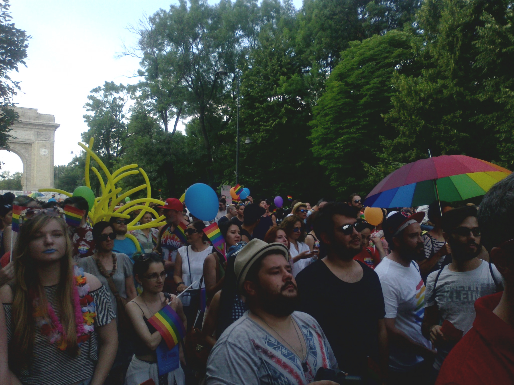 Bucharest Pride 2016